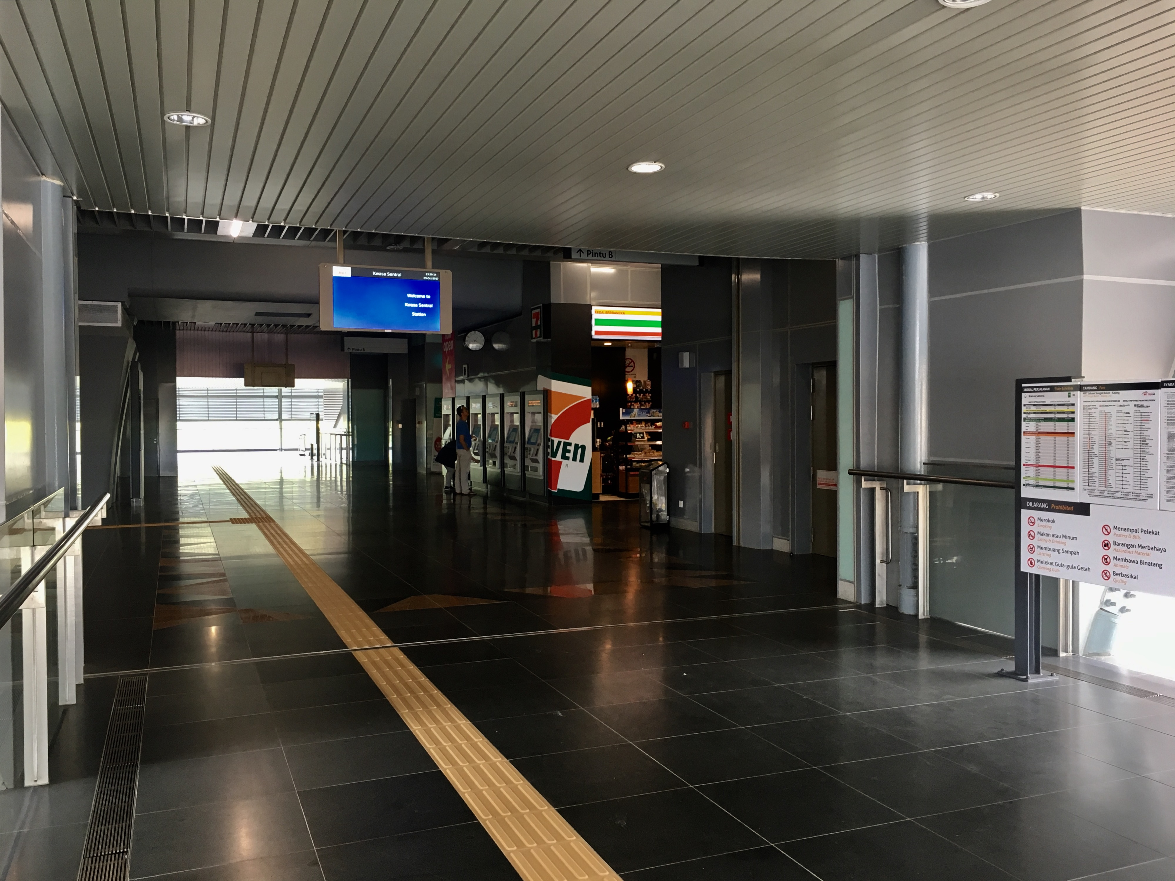 Entering the concourse of the station.